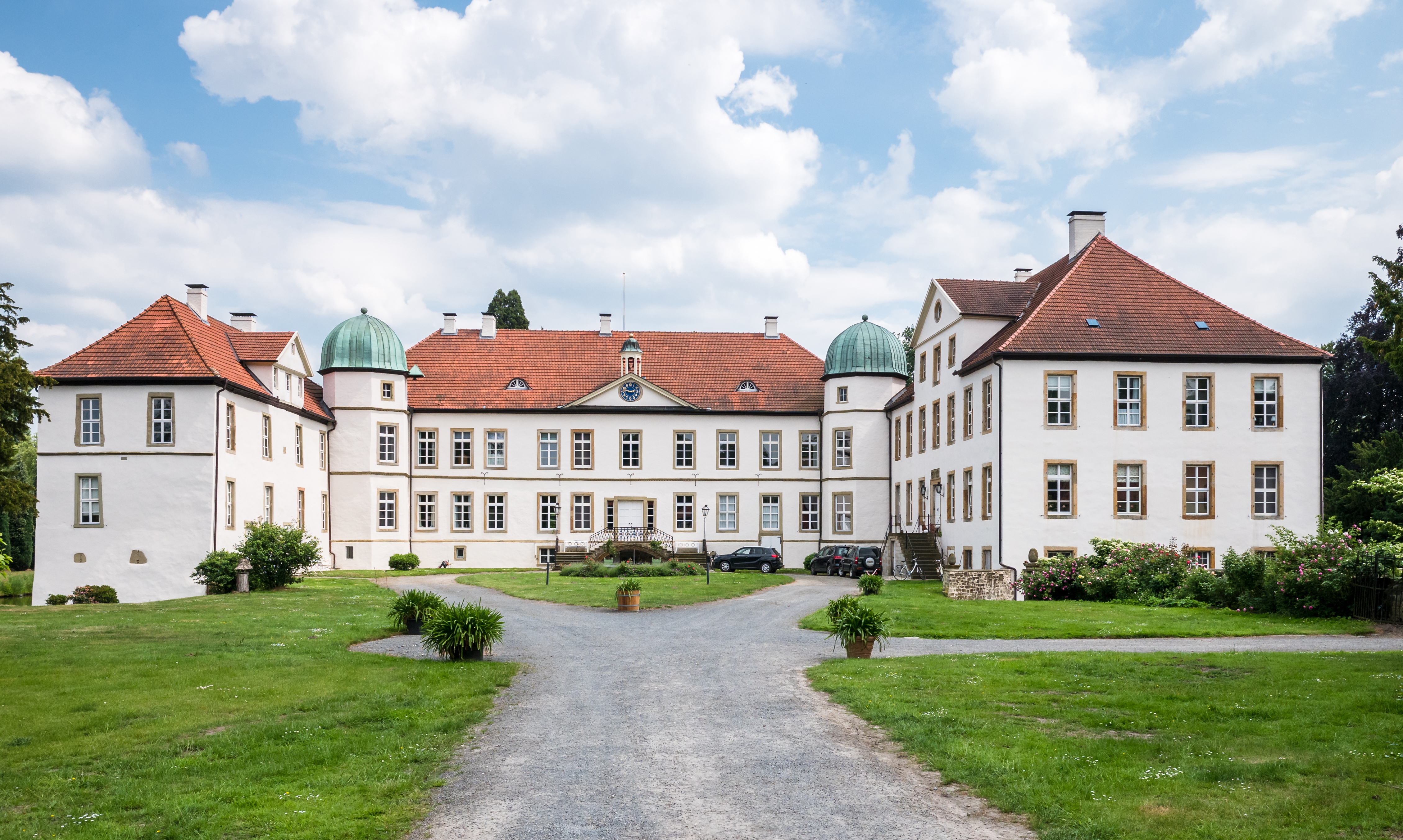 Hünnefeld Castle near Bad Essen. Osnabrück Land, Lower Saxony, Germany